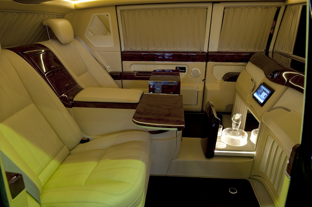 ZIL-4112R